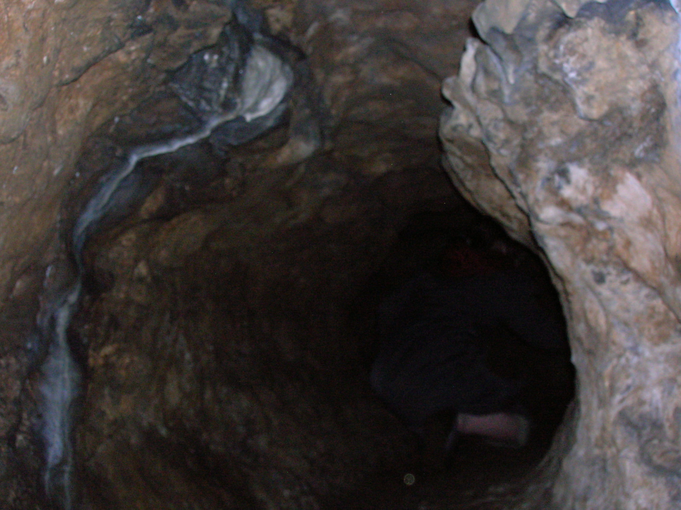 A passageway in the Cleeves Cove cave on the Dusk Water near Kilwinning in North Ayrshire, Scotland.Rosser 19:59, 24 July 2007 (UTC)